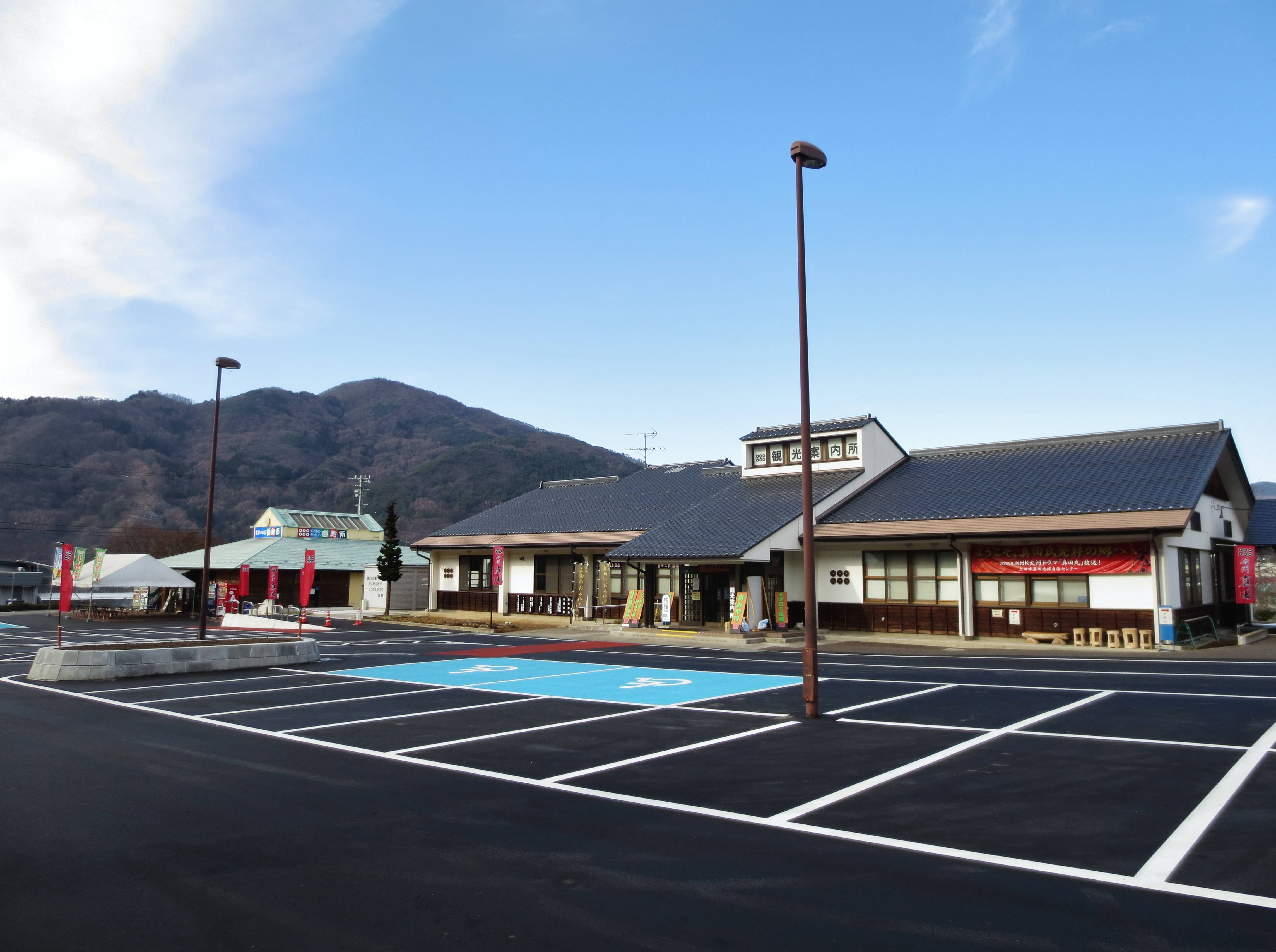 Yukimura Yumekobo.